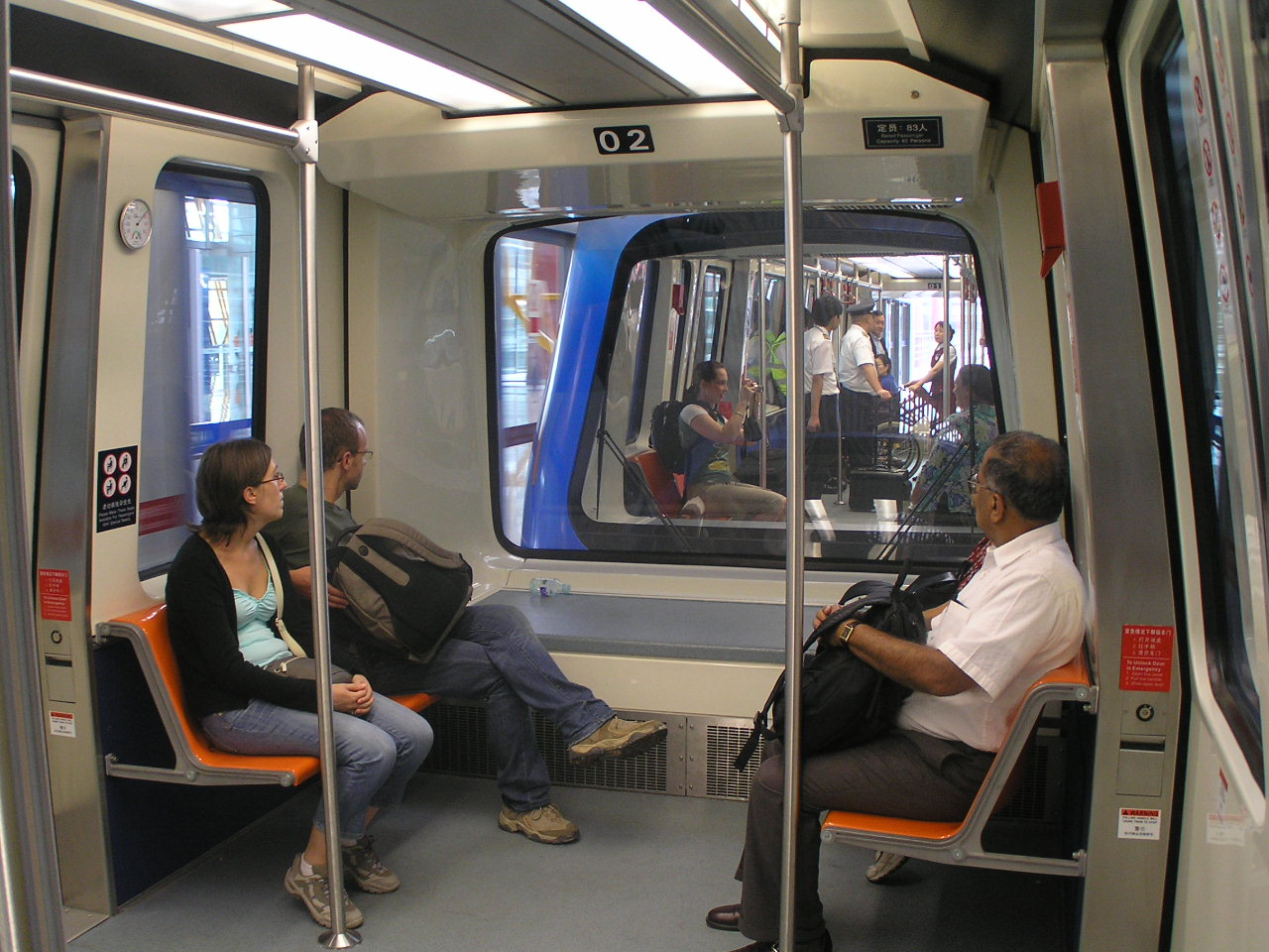 People mover within Beijing Airport.